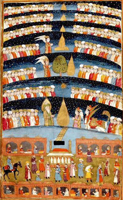 "Haydar's Battle"